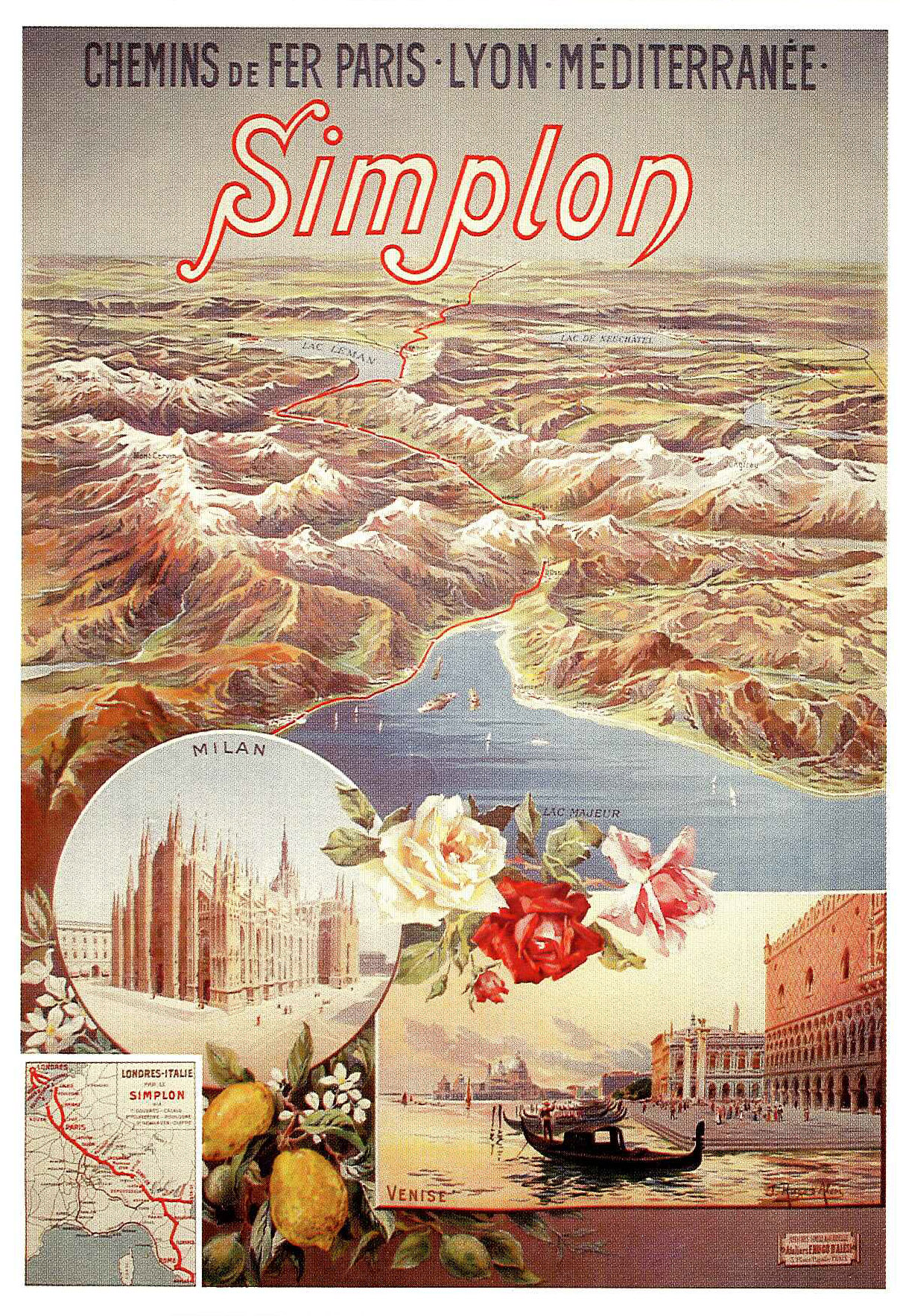 Old poster advertising tourism to northern Italy in France. The opening of Simplon tunnel in 1906 made the journey to northern Italy shorter for French tourists.